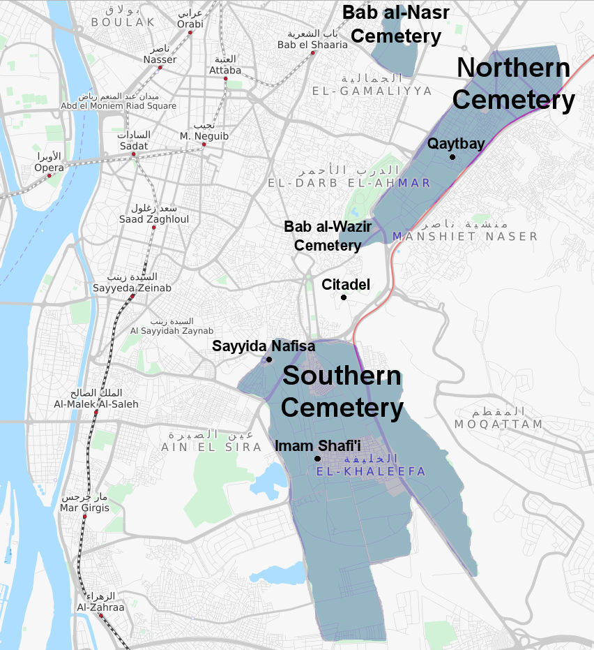 Map of the Cairo Necropolis (al-Qarafa) or City of the Dead, with main areas and key landmarks indicated in bold text.